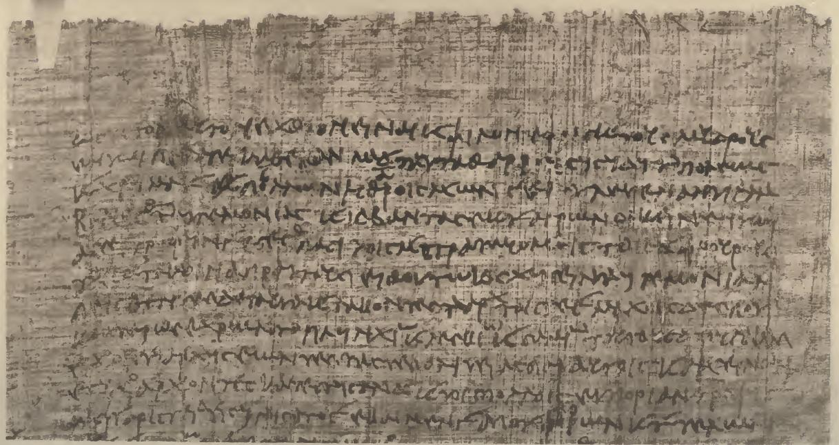 Facsimile of the manuscript (papyrus) "Athenian Constitution" of Aristotle (London papyrus number 131, now stored in the British Museum).